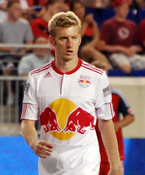 American soccer player Tim Ream. Photo: July 6, 2011.